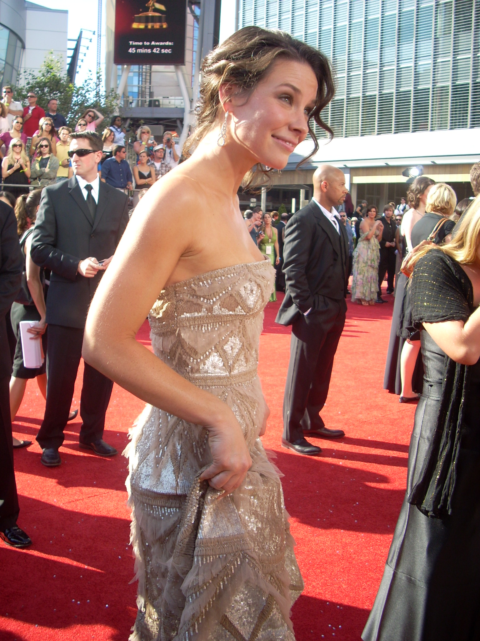 Actress Evangeline Lilly at 60th Annual Emmy Awards in 2008